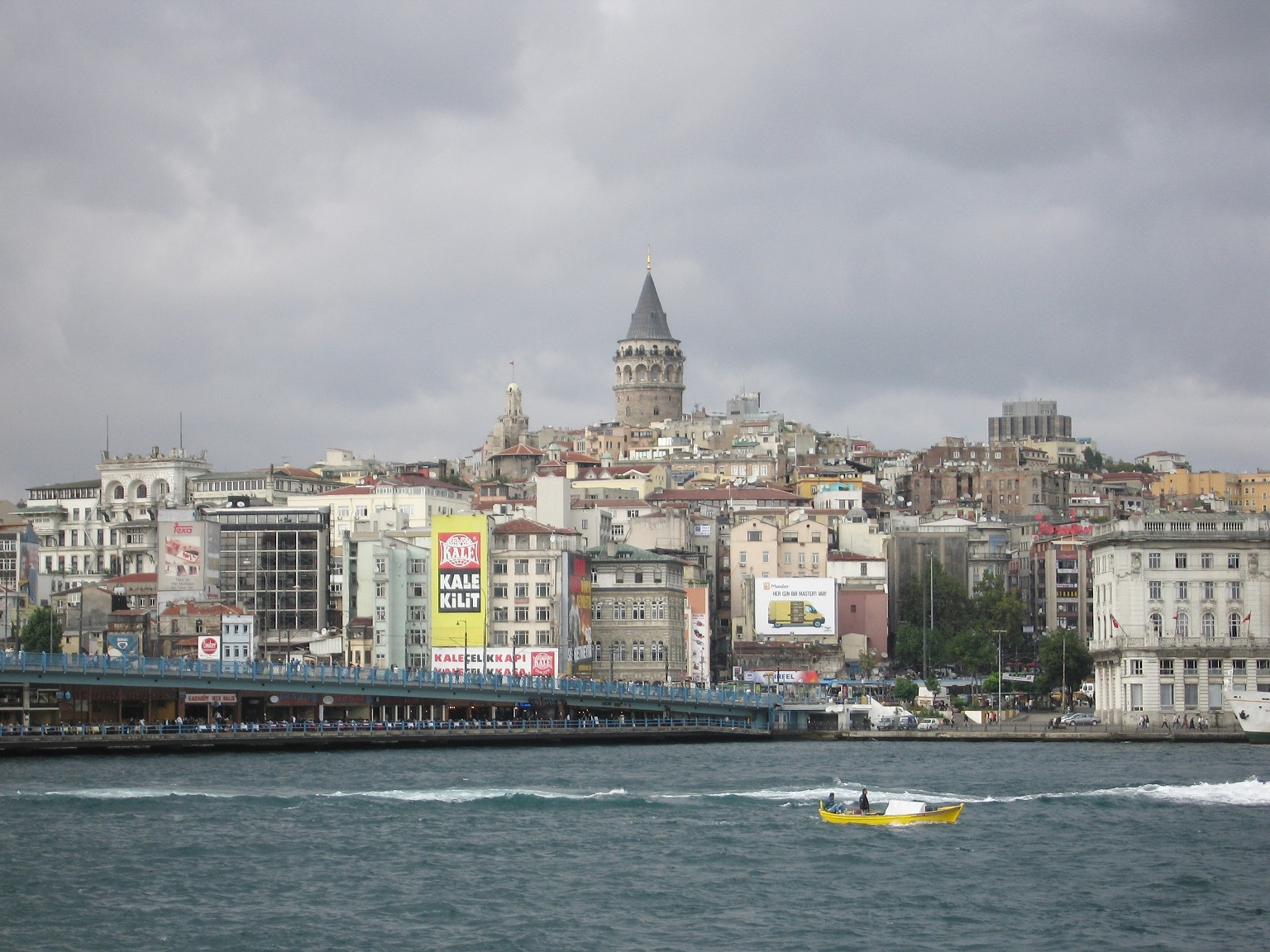 Karaköy (the old Galata) crowned by the Galata tower. Istabul, Turkey.